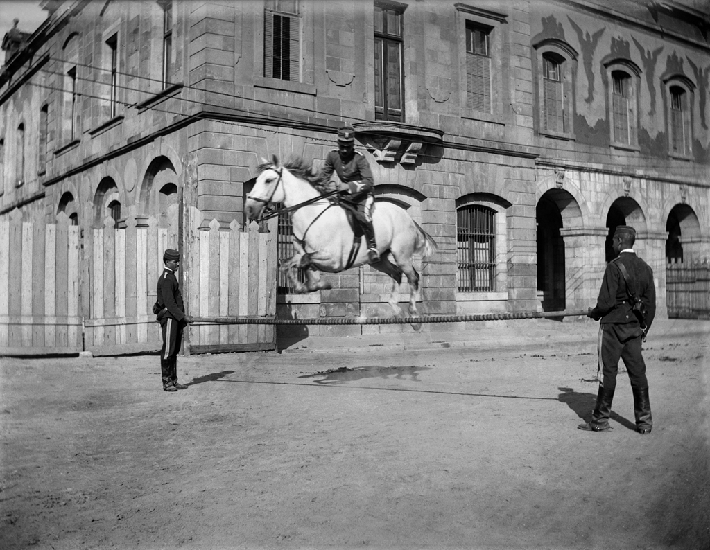 Còpia moderna del negatiu original de vidre 20 x 25 cm Llegat Dolors Moros, 2010 Museu d'Art Jaume Morera. 3059